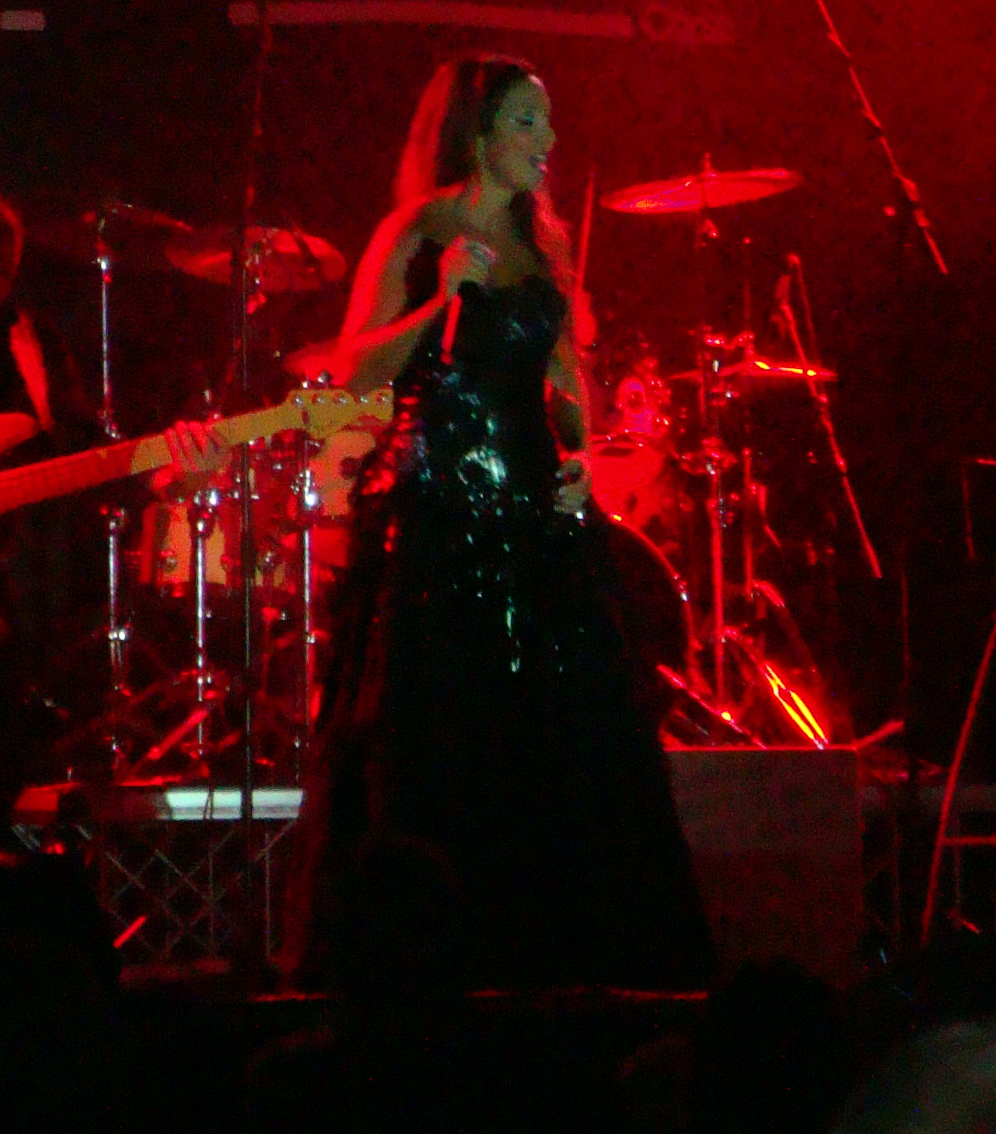 Helene Segara in concert July 16, 2010 in Les Arcs sur Argens in the Var.